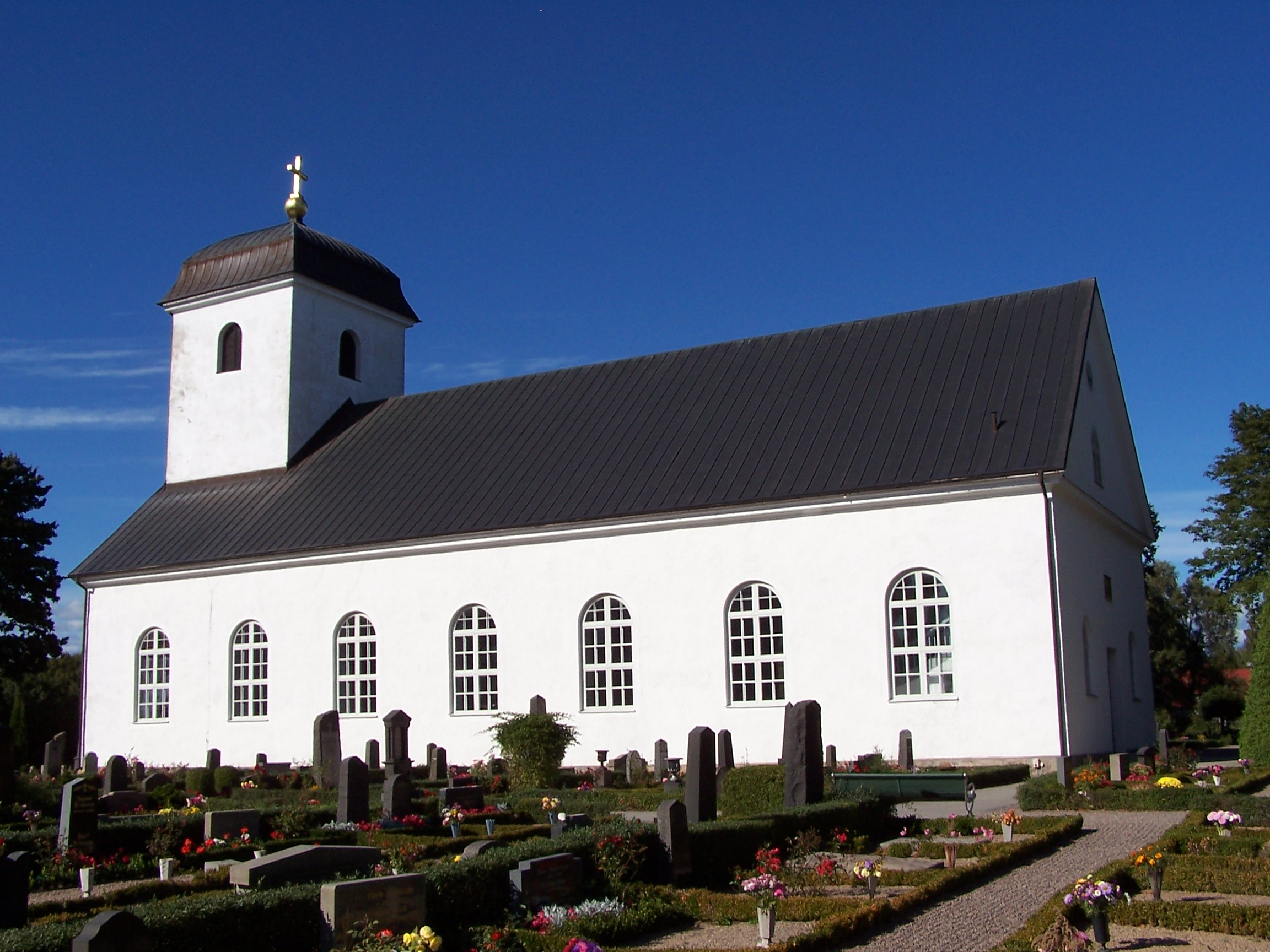 Jämjö church, Karlskrona, Sverige - Exterior